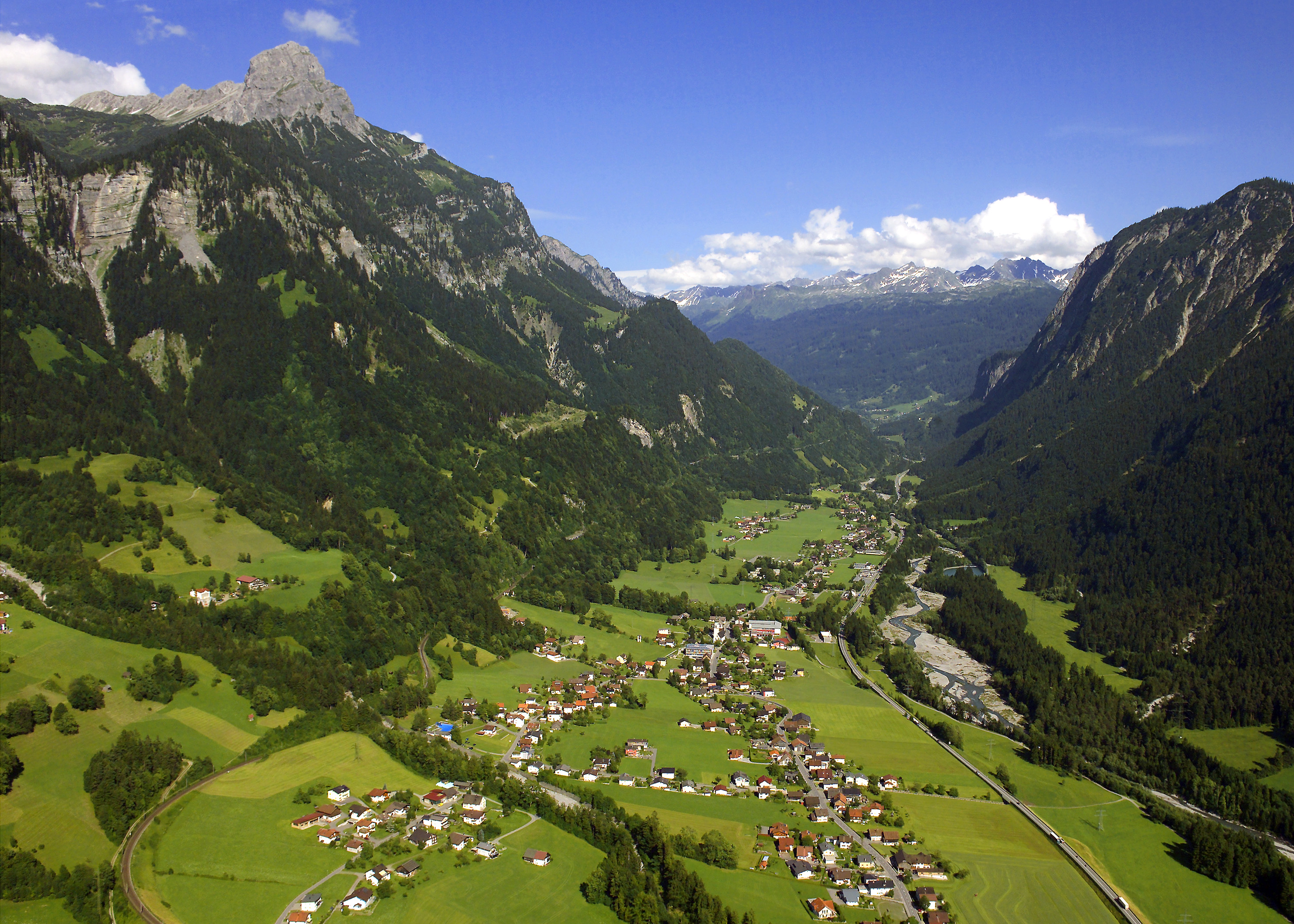 entrance of the Klostertal valley with Innerbraz in the front